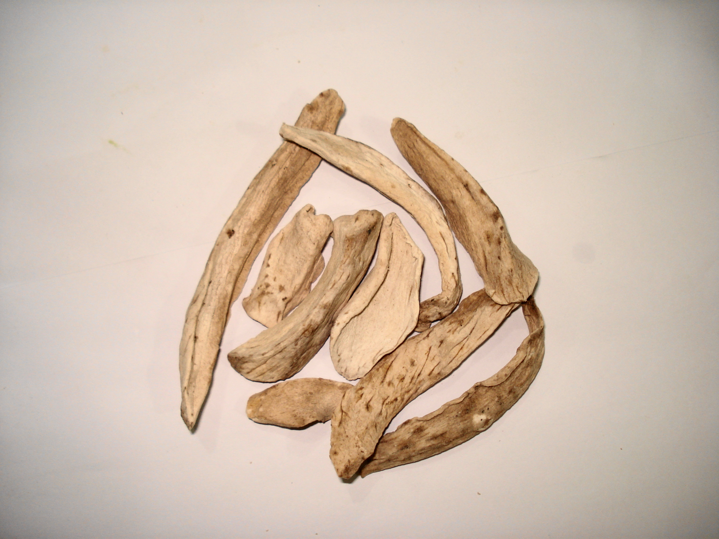 Mango dried, Amchoor, Khatai